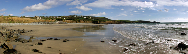 panorama of the shoreline at Perranuthnoe.